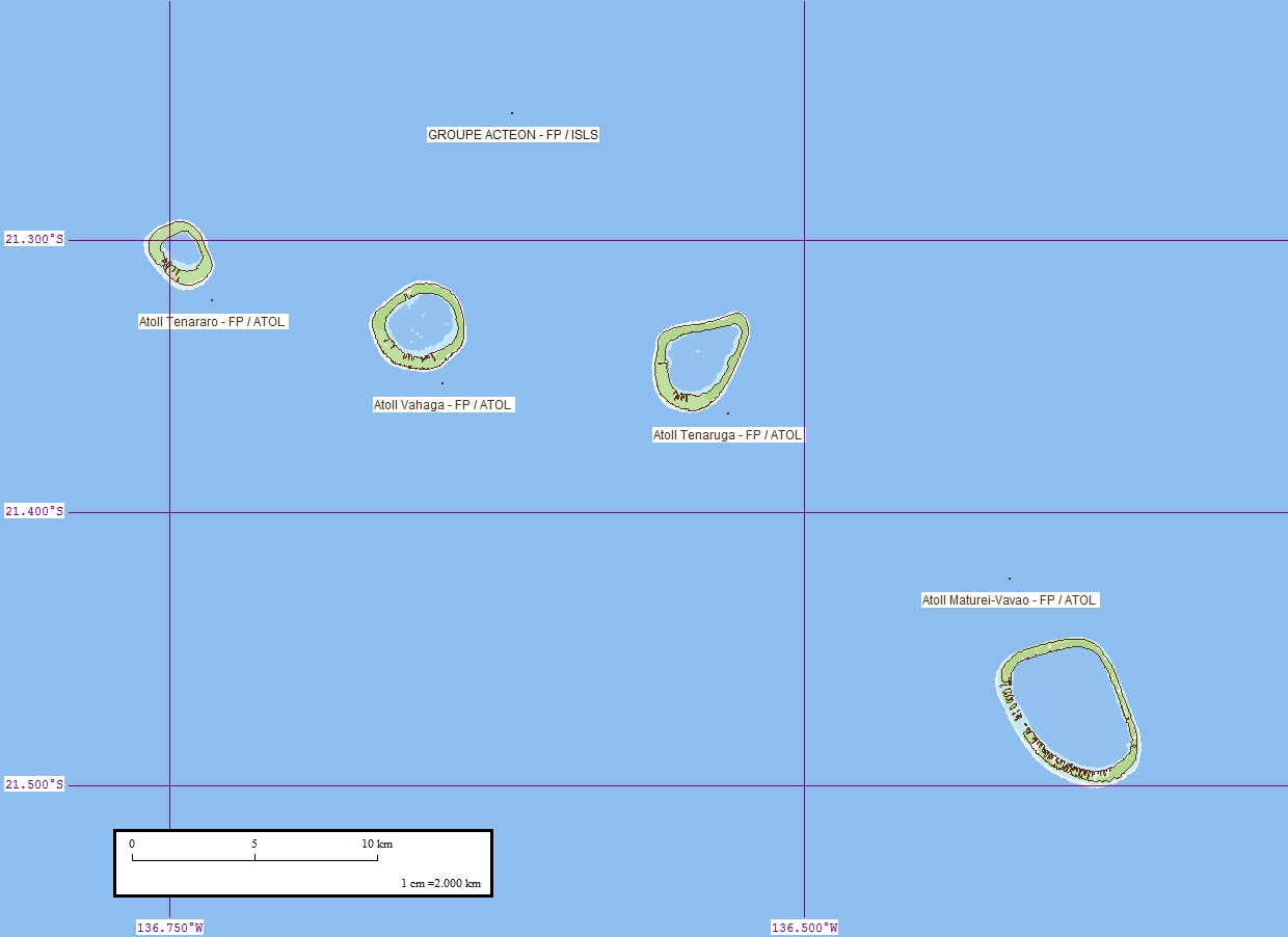 Map of Groupe Actéon, Tuamotu Archipelago, French Polynesia